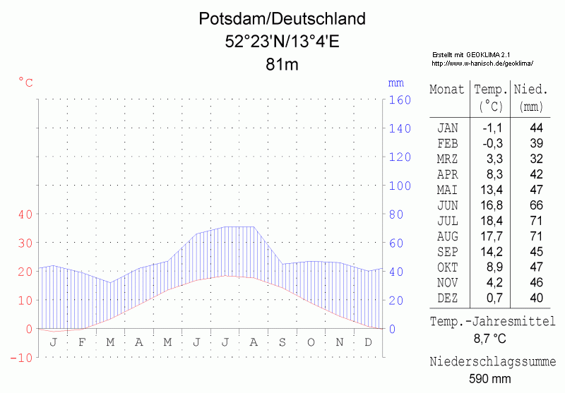 climate chart in the format by Walther and Lieth, metric, °Celsisus and millimeters, made with Geoklima 2.1